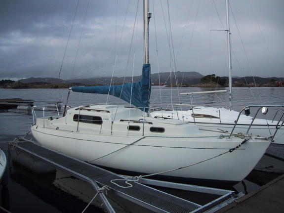 Albin Vega, seen from the side (hull no. 2209)